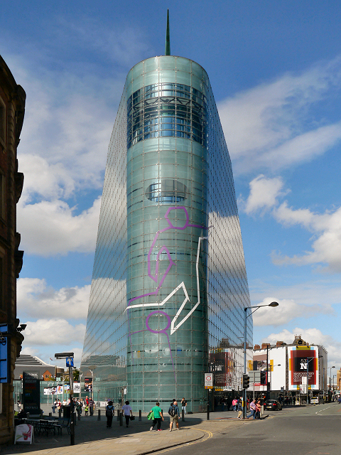 Urbis Building in July 2012 seen from the south